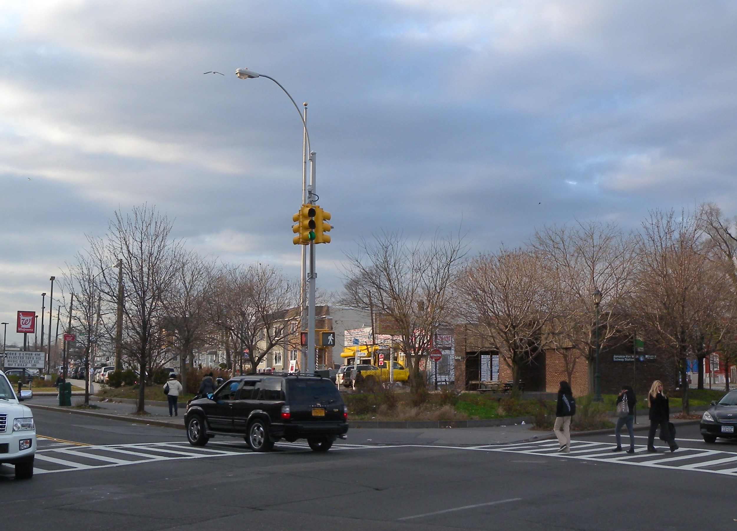 Looking west across Jamaica Avenue and up Metropolitan Avenue on a mostly cloudy afternoon.